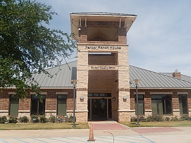 I took photo with Nikon camera of Parker Ranch House Building at UTPB in Odessa, TX.